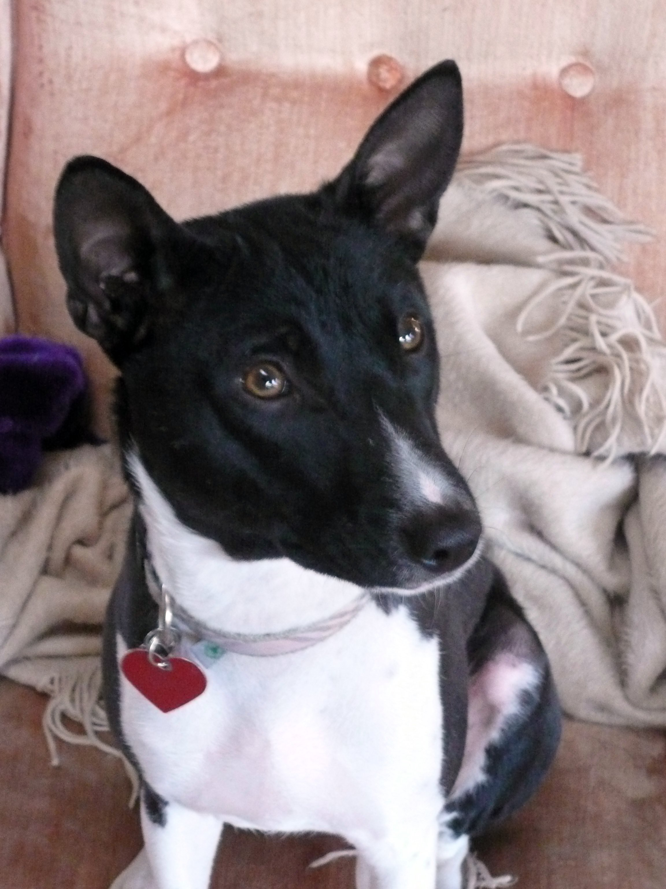 Here's BIlly the foster boy - considering the big news that he will be moving to a forever home soon in Michigan! He is being adopted and will leave for Michigan in about a week. Basenji